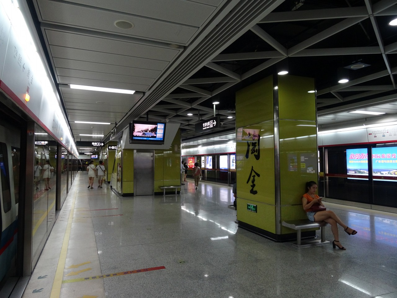 淘金站嘅月台